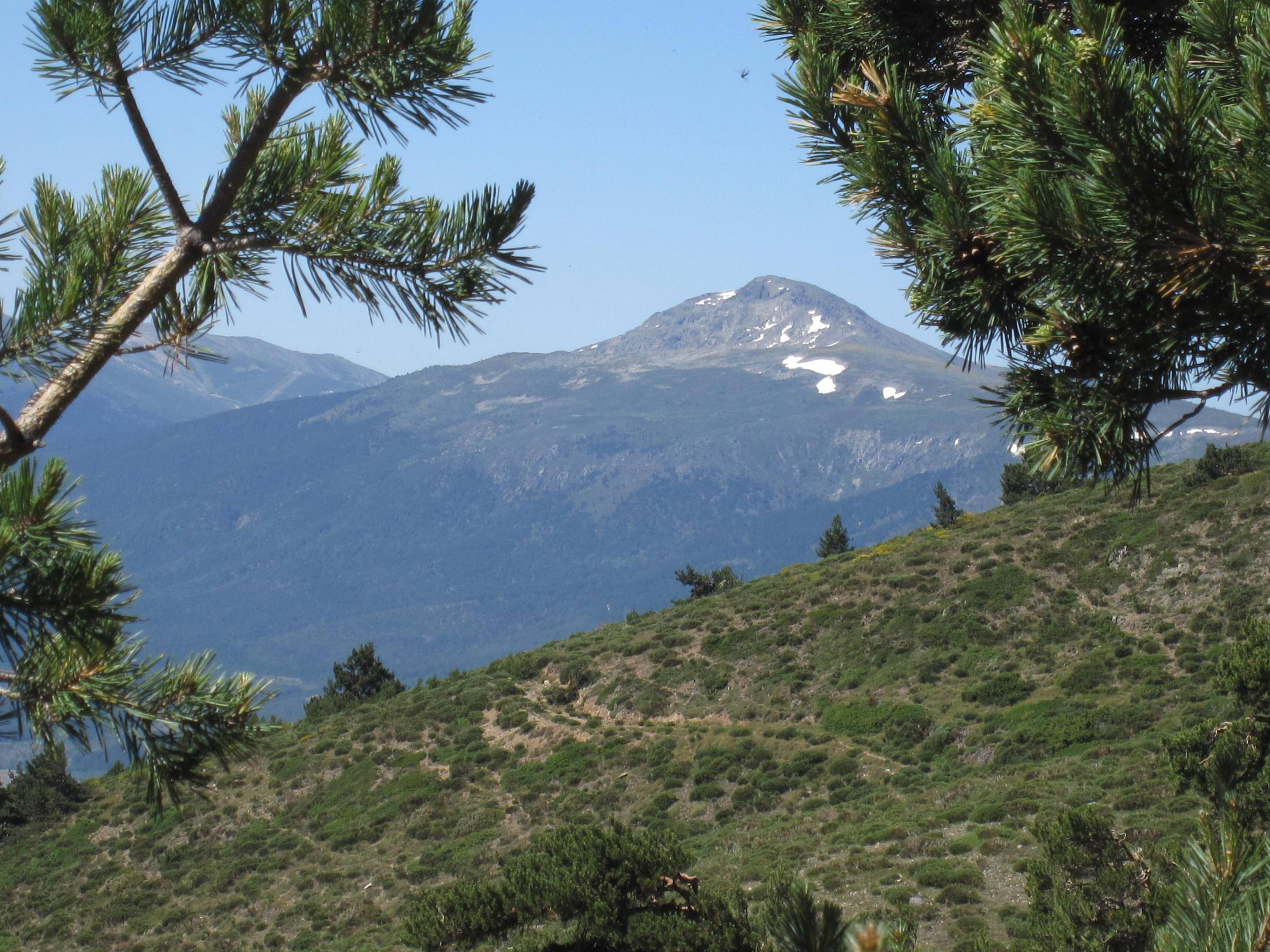 North face of PEñalara massif seen from El Nevero peak (Guadarrama mountain range, central Spain).